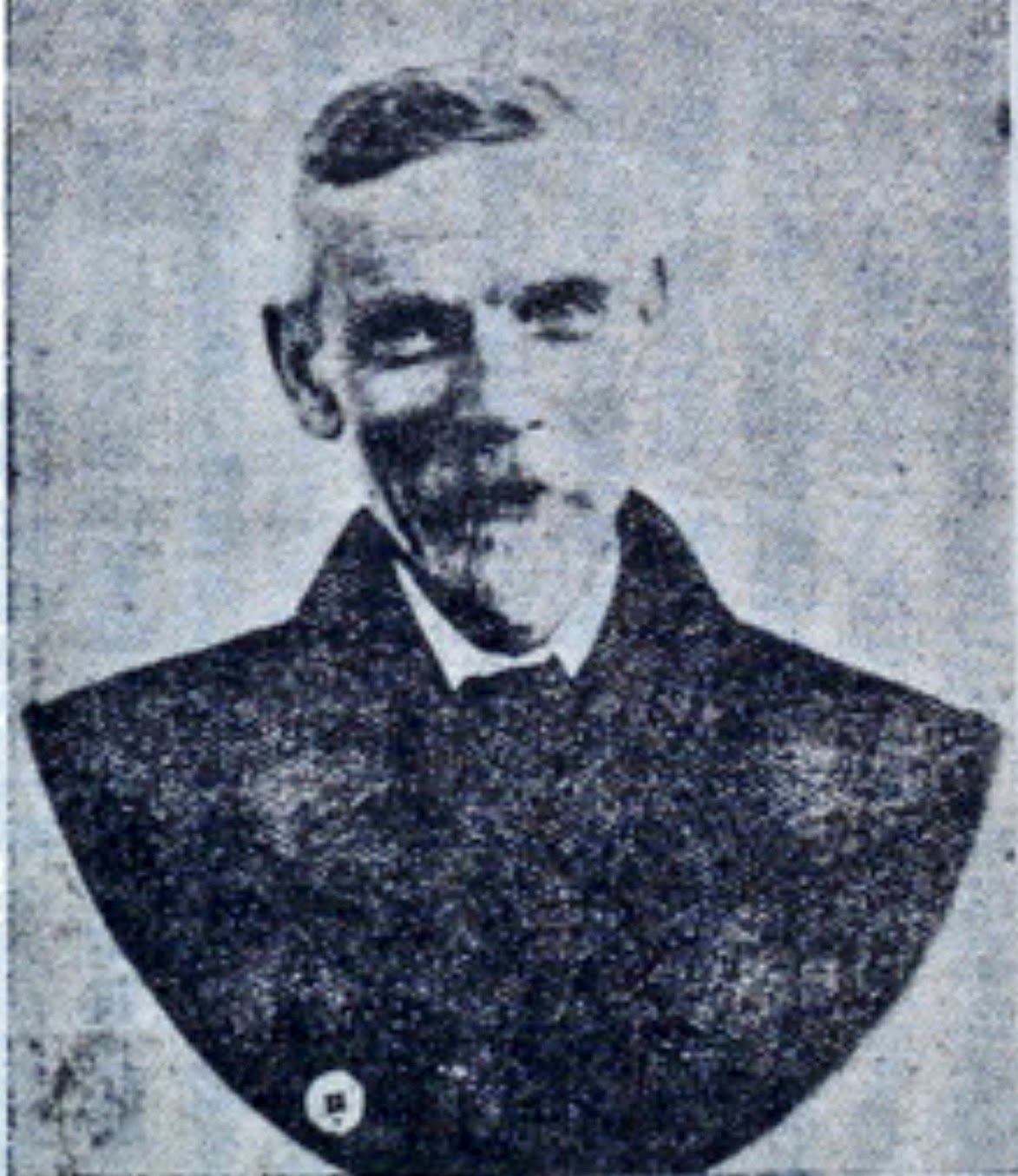 James Mardock from Japanese magazine "Taiyo" 1925